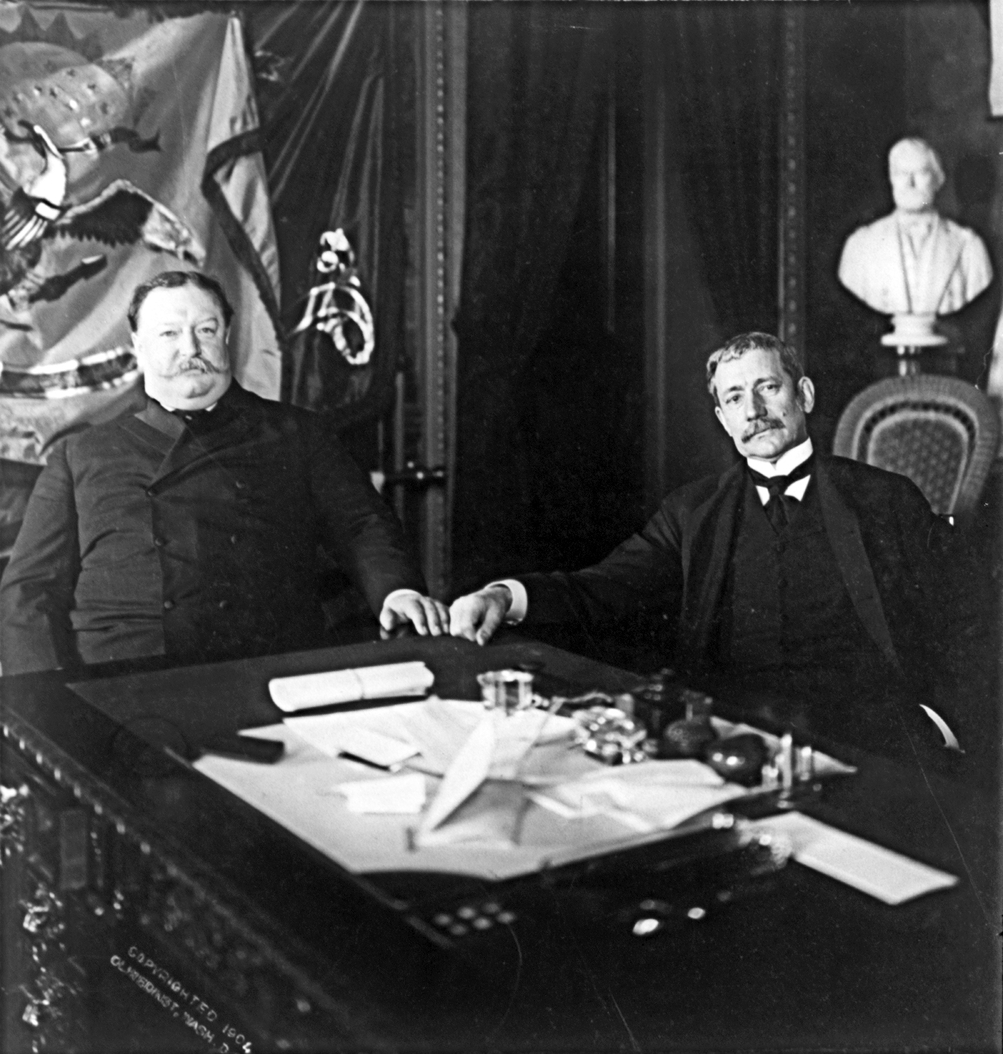 William Howard Taft and Elihu Root seated at desk.